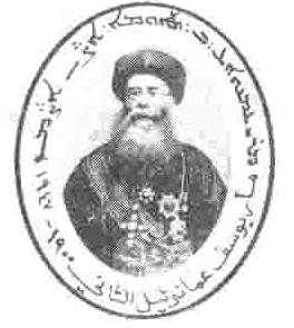 Yousef VI Emmanuel II Thomas, Chaldean Catholic Patriarch of Babylon